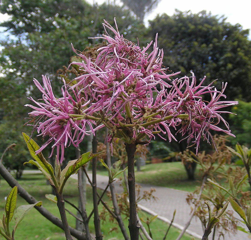 Chionanthus pubescens or the Pink Fringe Tree. Bogota Botanical Gardens. Wide ranging in Malaysia. Native to Ecuador and Peru.